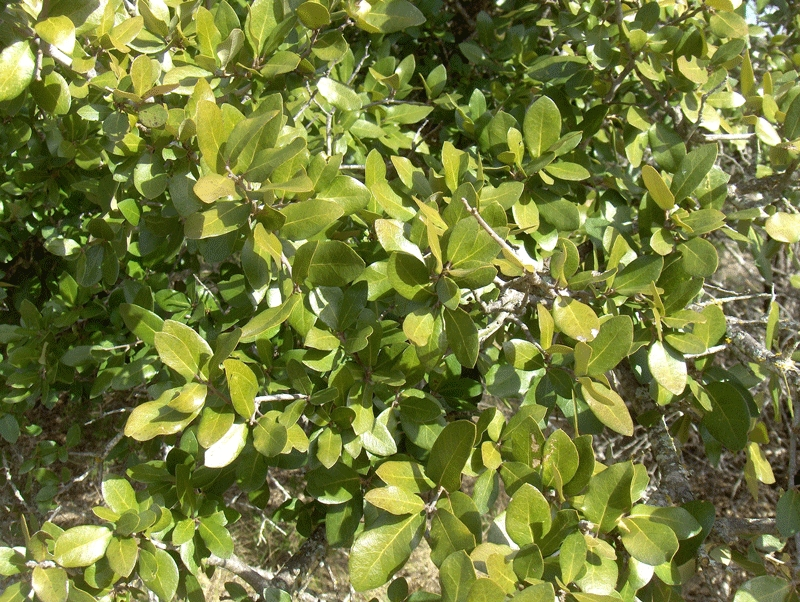 Plateau Live Oak leaves in Texas.